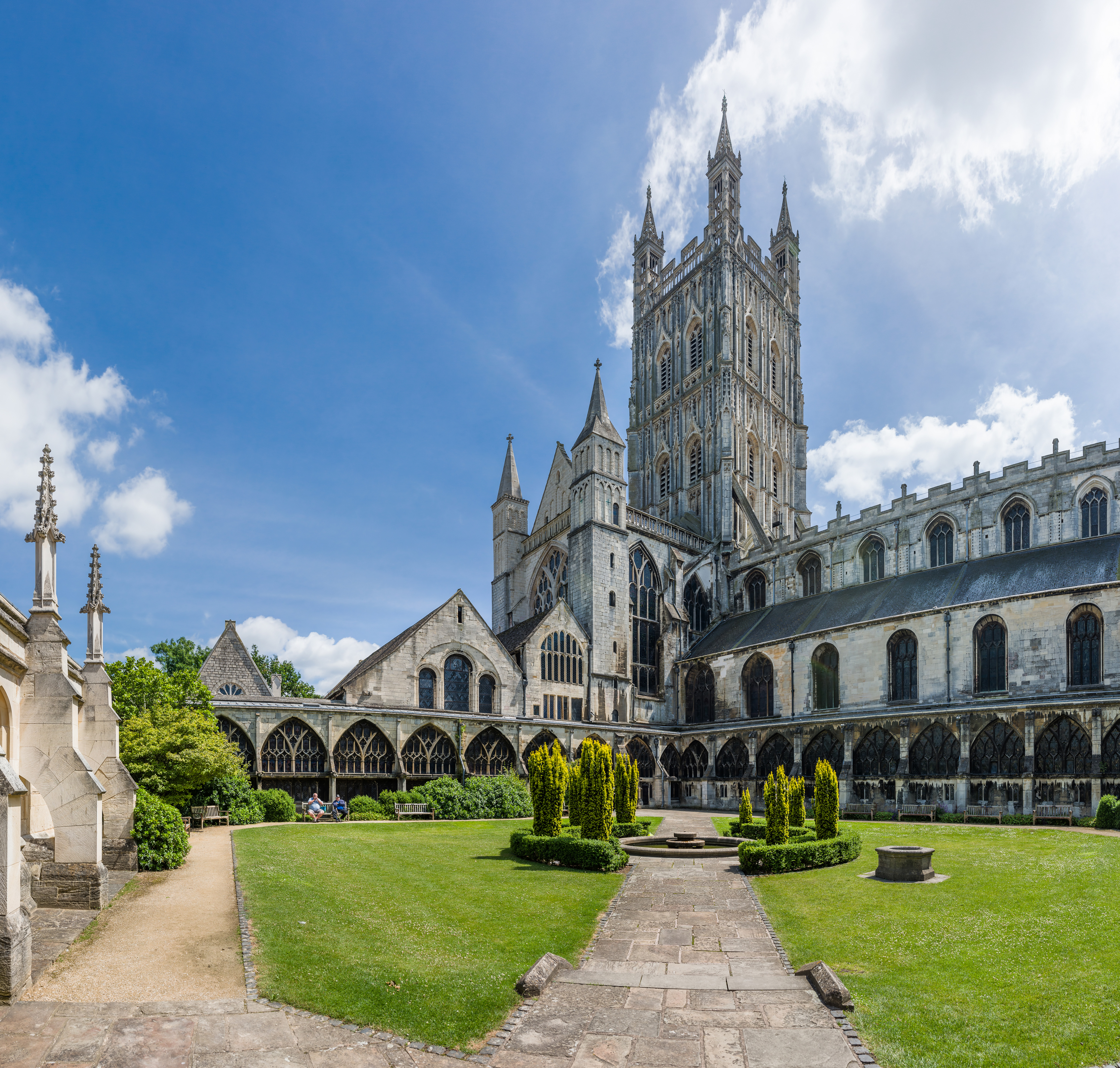 Looking south-east towards the tower of Gloucester Cathedral from the cloister in Gloucestershire, England.